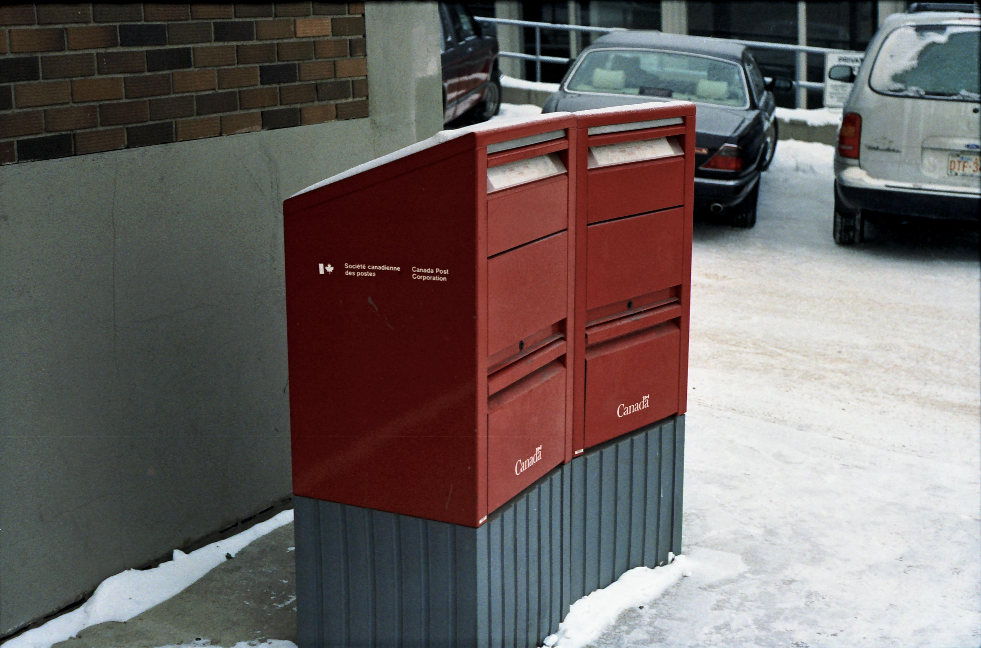 Post boxes in Edmonton. Praktica LTL